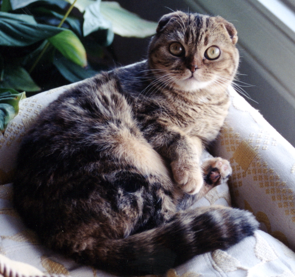 The ears of the Scottish Fold are the influence of human selection pressure. This cute mutant was first discovered in 1961, and bred by a geneticist .little kitty